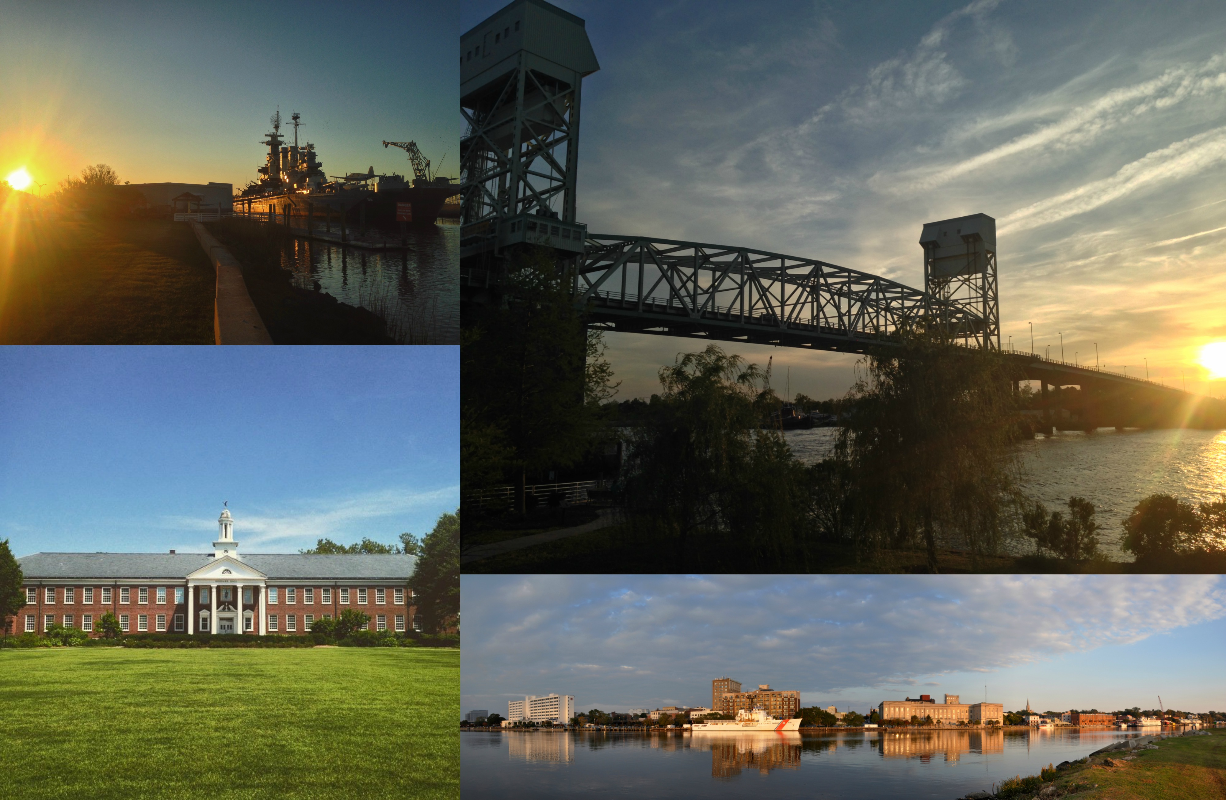 Redone Montage of Wilmington, North Carolina and environs